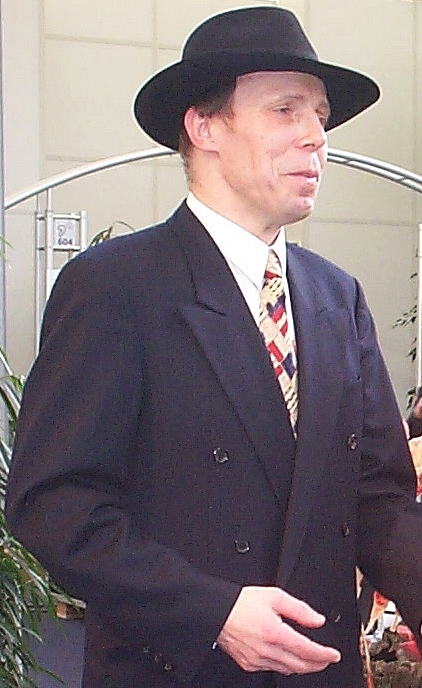 Gunther von Hagens at the opening of the Body Worlds exhibition in Cologne, Germany